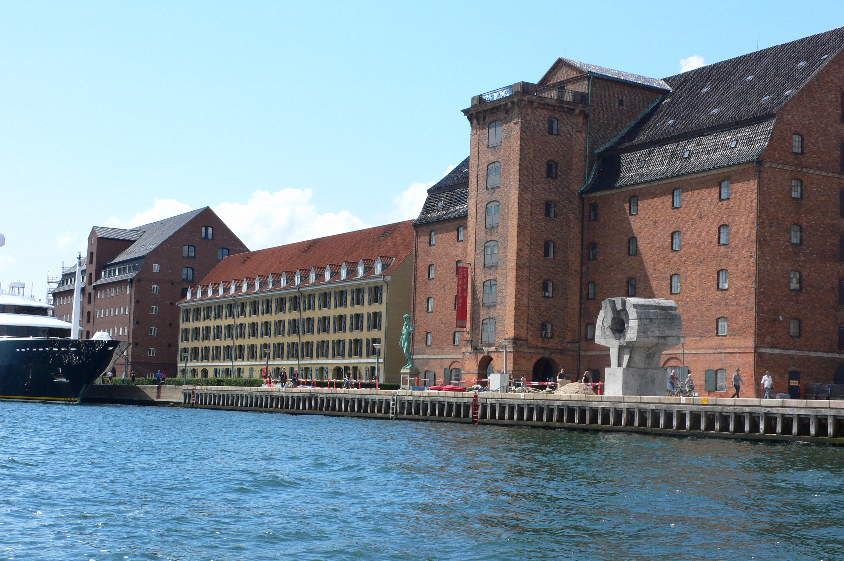 Larsens Plads in Copenhagen, Denmark seen from the water